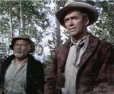 Cropped screenshot of the film The Naked Spur